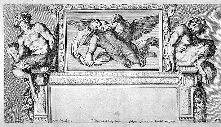 Carlo Cesium (1626-1686), Ganymede and Jupiter (fresco engraving of Annibale Carracci in Palazzo Farnese in Rome) . Published in the Illustration of the Farnese Gallery (1675)